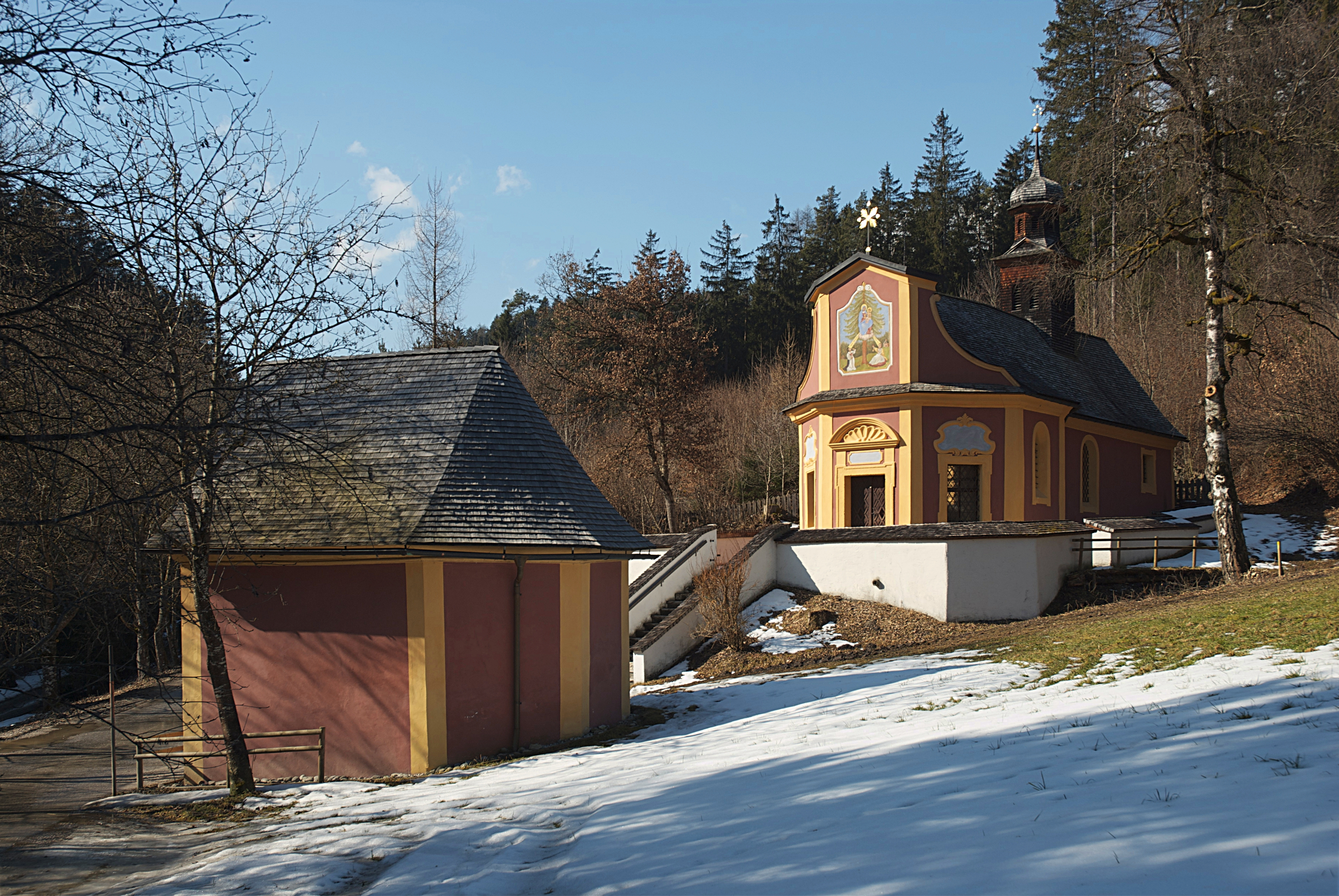 The pilgrimage place of Maria Larch near Terfens, Tyrol